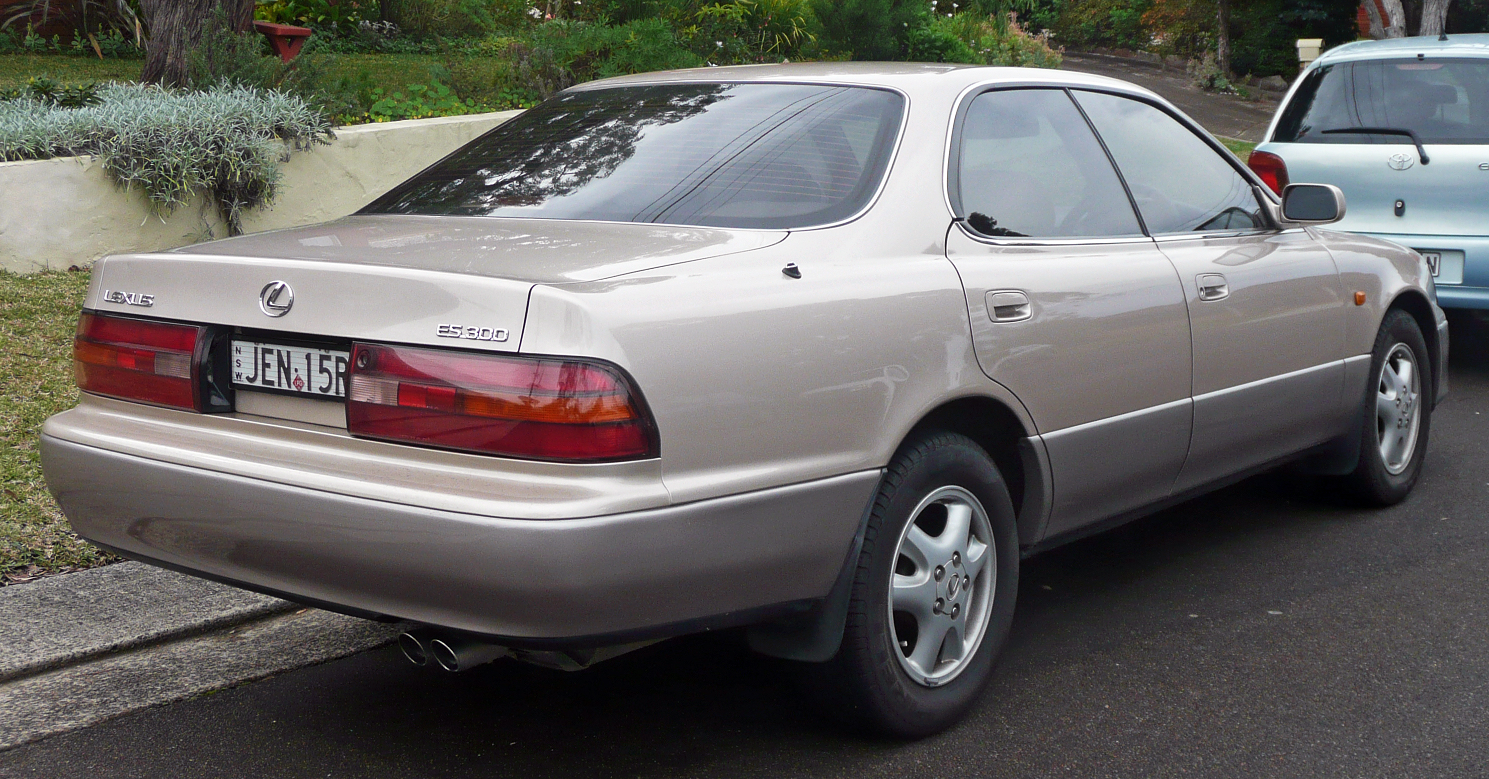 1992–1994 Lexus ES 300 (VCV10R) sedan. Photographed in Kirrawee, New South Wales, Australia.